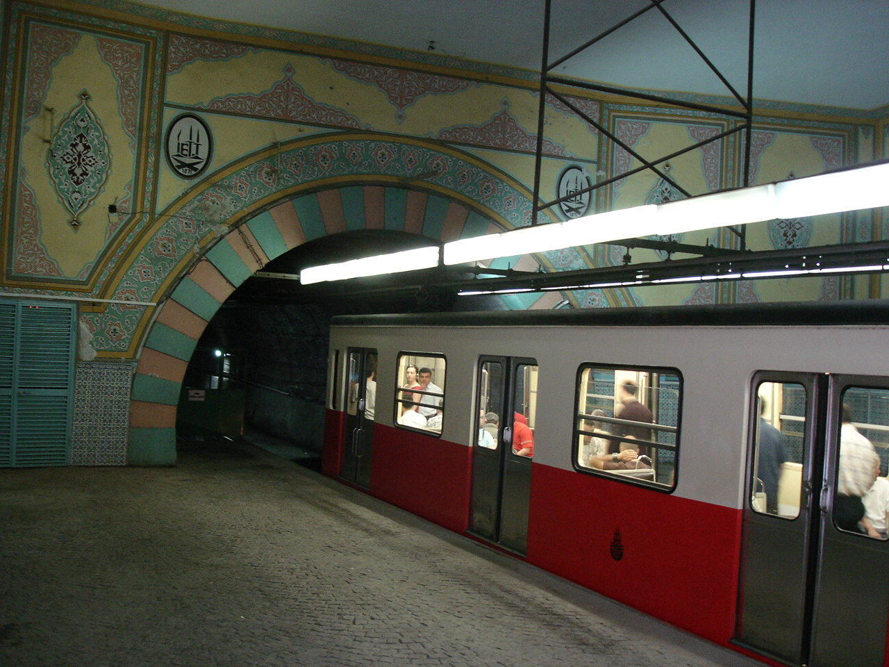 The Funicular, in Galata, Istanbul. It was built at the beginning of 20th century in moresque style. Picture by: Giovanni Dall'Orto, 29-may-2006.